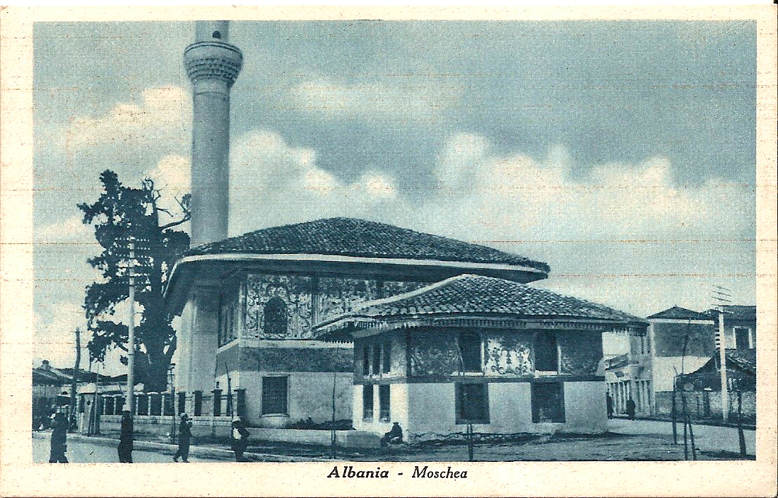 Historic postcard from Albania showing the Old Mosque of Tirana; sent 1940